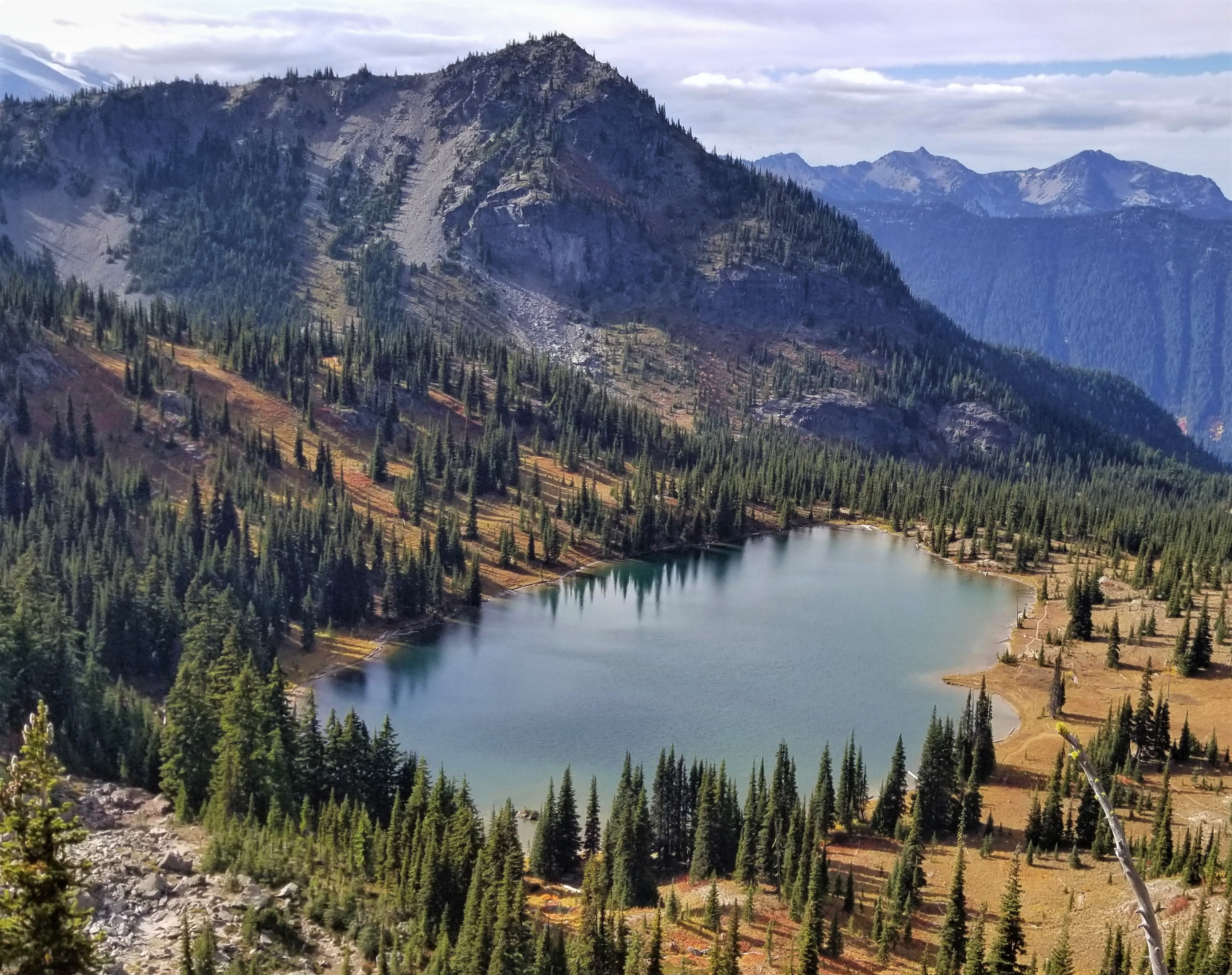 Crystal Peak and Crystal Lake, MRNP